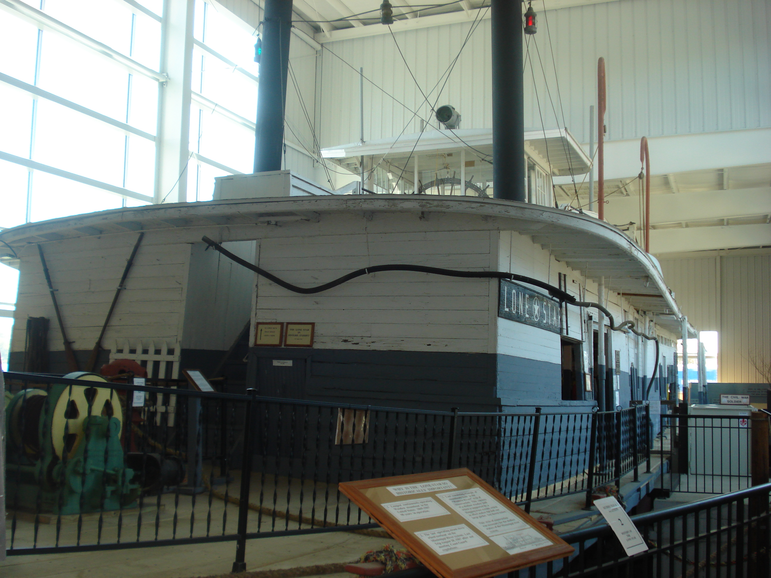 An 1868 wooden, paddlewheel, steam-powered, towboat that is a part of the Buffalo Bill Museum.